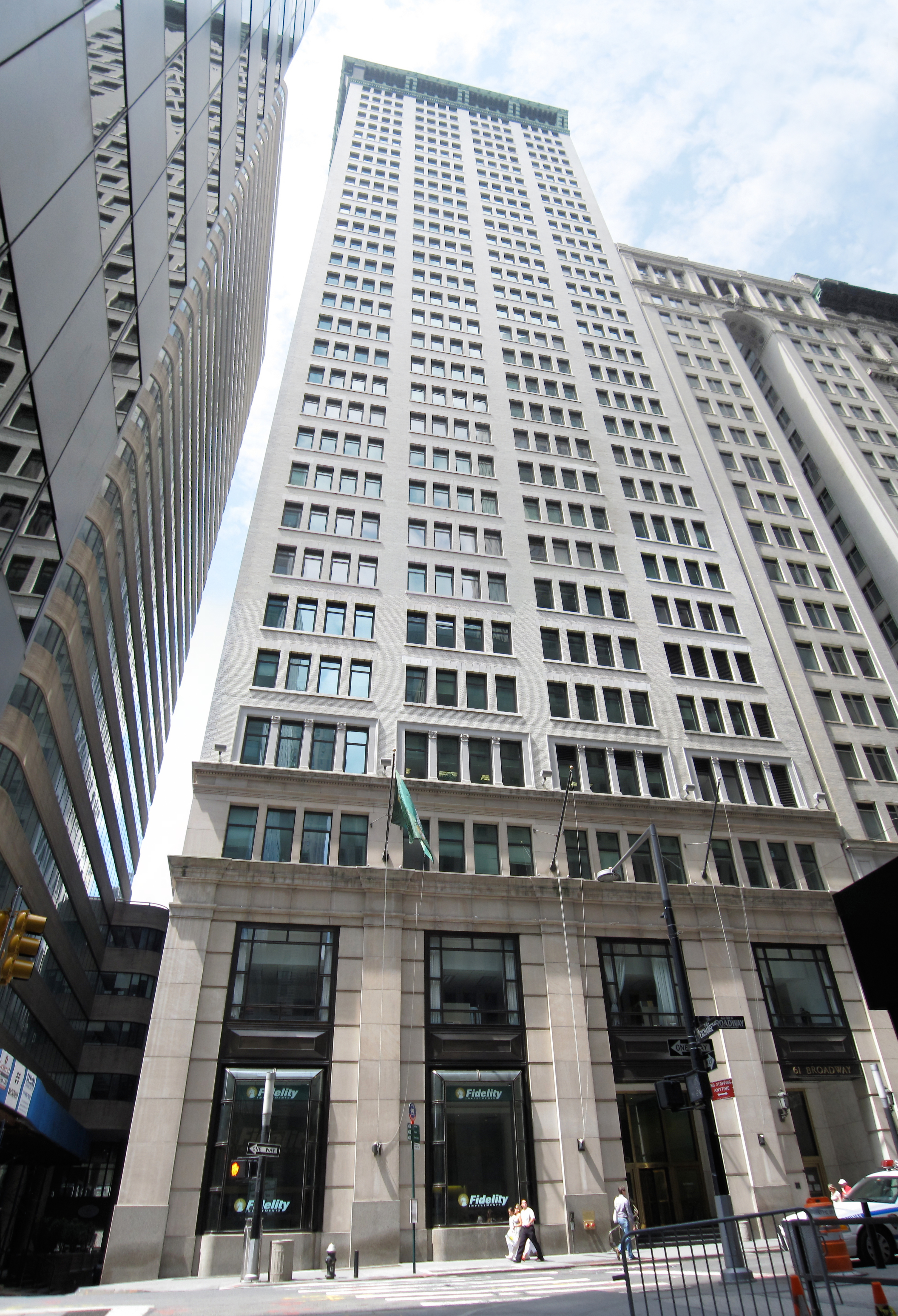 Adams Express Buildings at 57-61 Broadway, and Exchange Alley and 33-41 Trinity Place in New York.